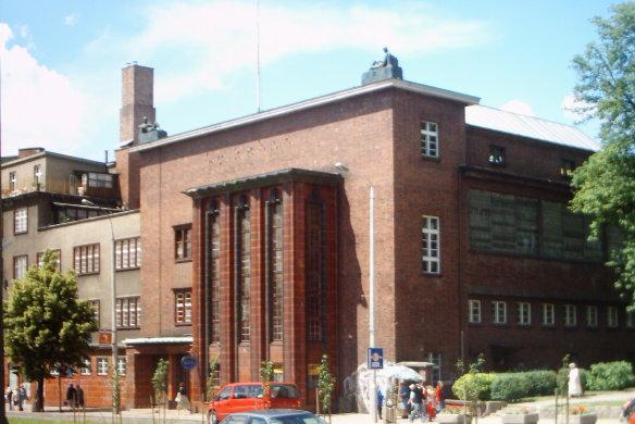 Łażnia miejska w Gorzowie Wielkopolskim.